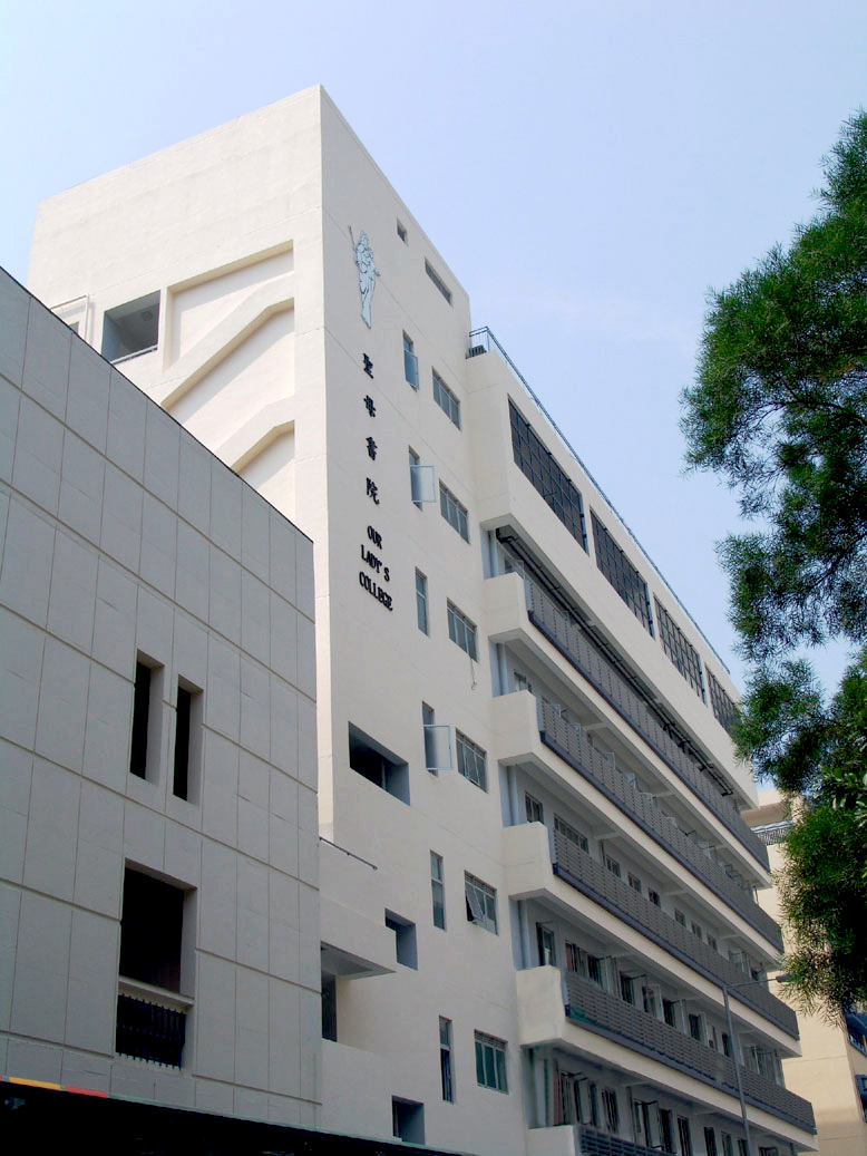 new extension of OLC campus, photo taken by author